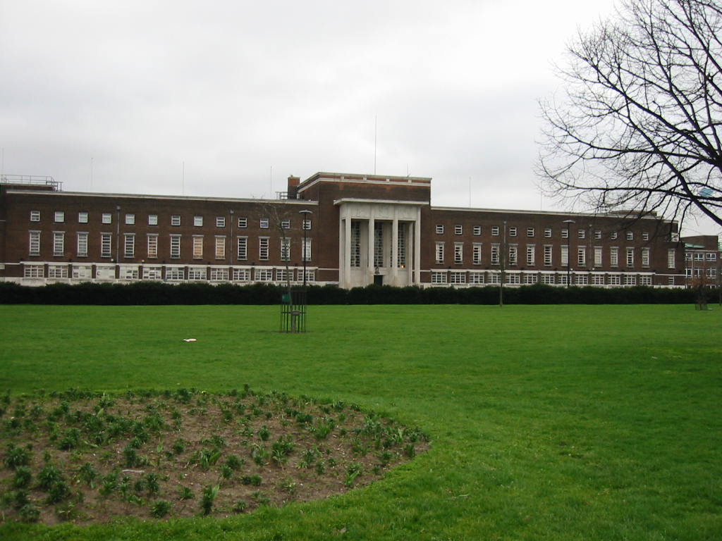 Dagenham Civic Centre is surrounded by landscaped open space, Becontree Heath, London.